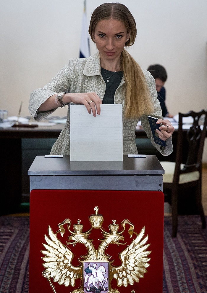 Russians In Iran Vote In Presidential Election - 18 March 2018